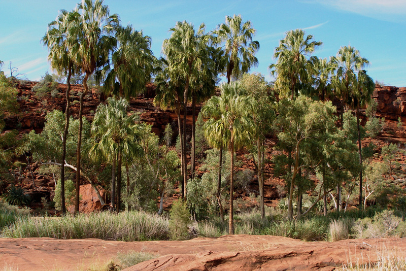 Finke Gorge National Park, Australia, Palm Valley - central Australian cabbage palm or red cabbage palm (Livistona mariae).